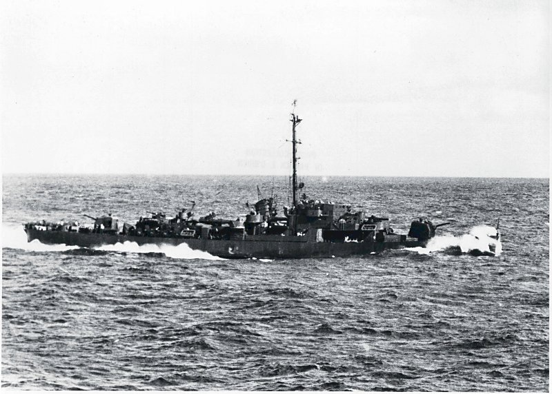 The U.S. Navy destroyer escort USS Shelton (DE-407) underway at sea, circa in 1944.